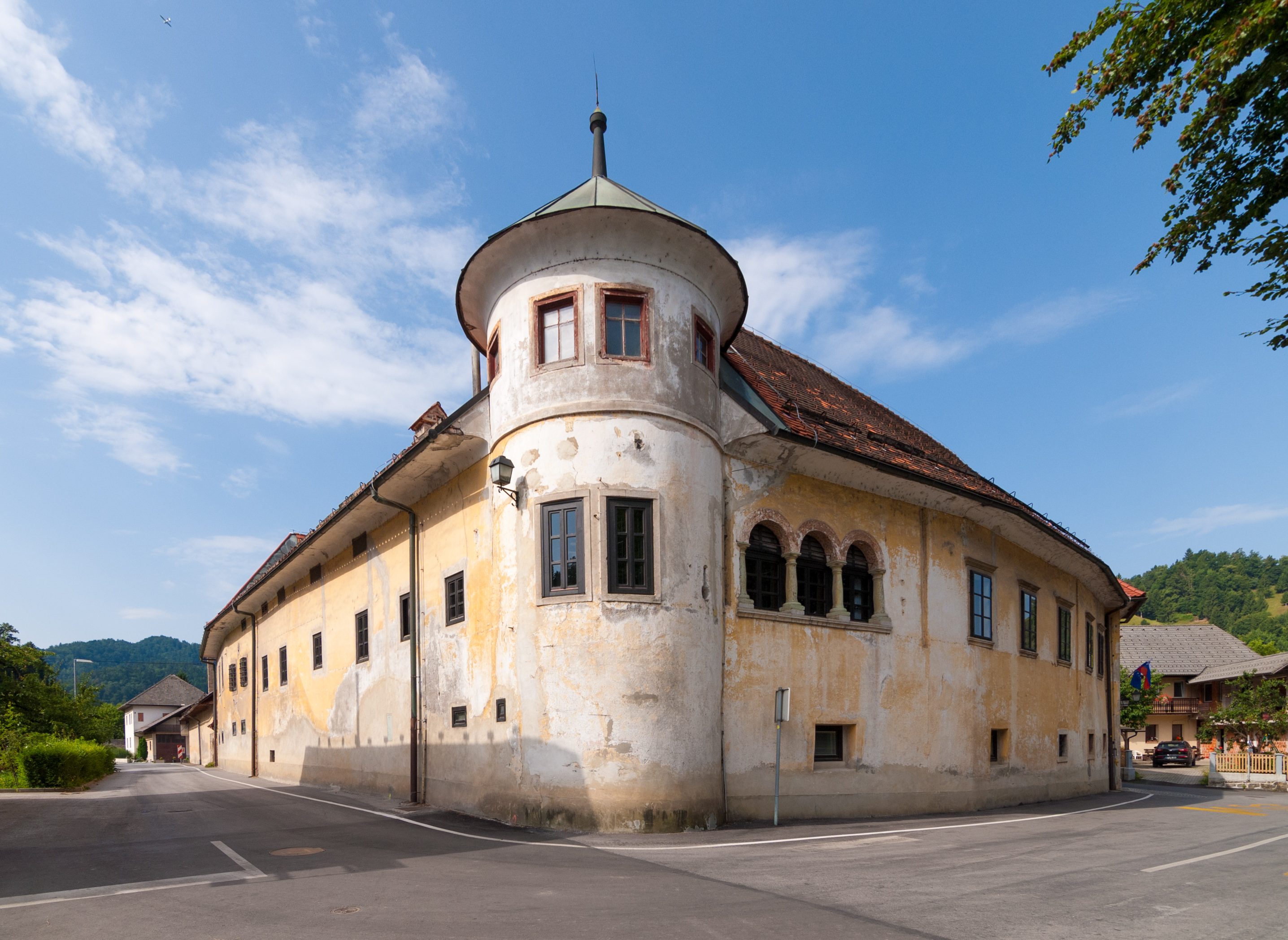 Castle Puštal near Škofja Loka, Slovenia